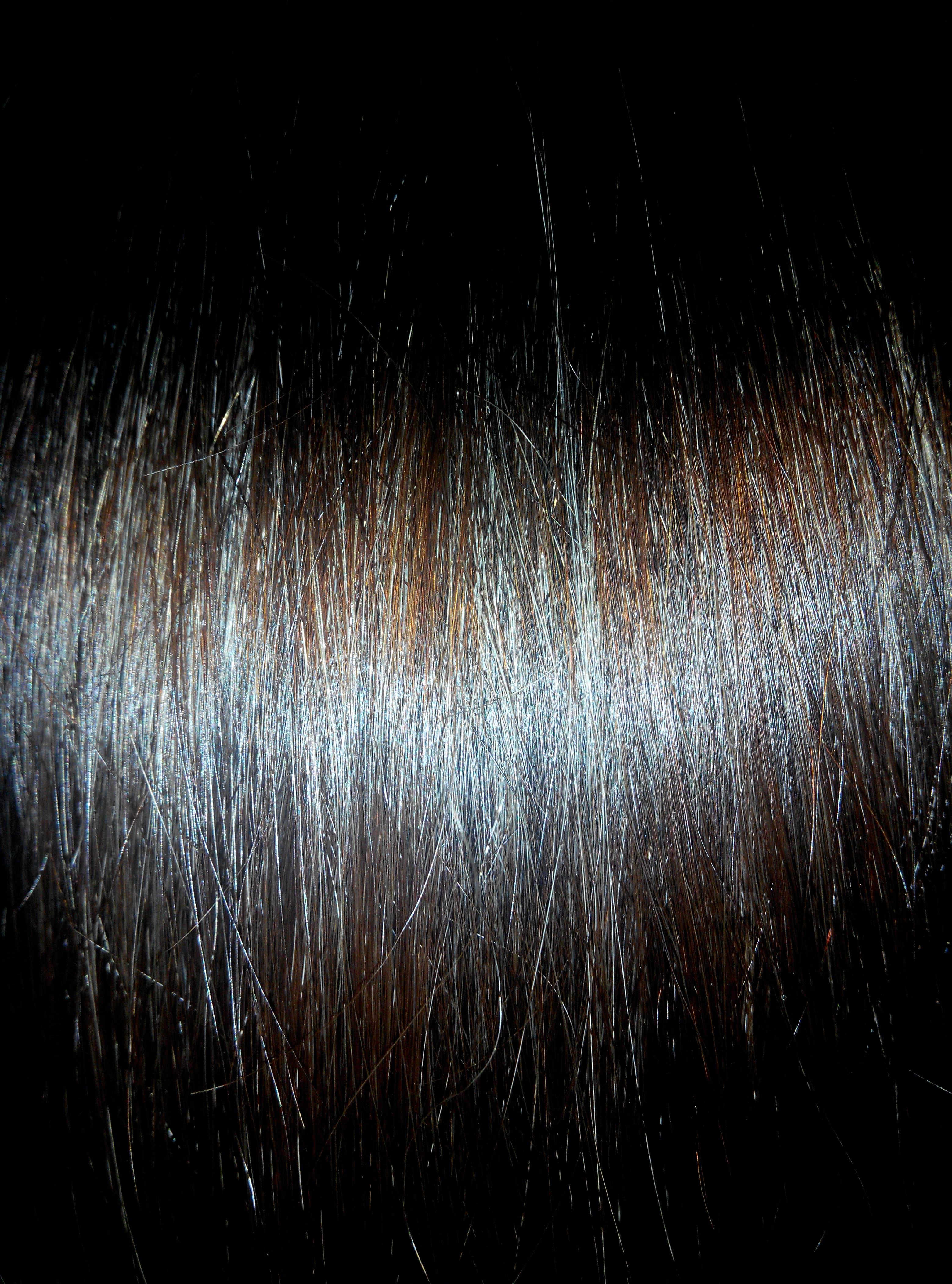 Brown hair texture